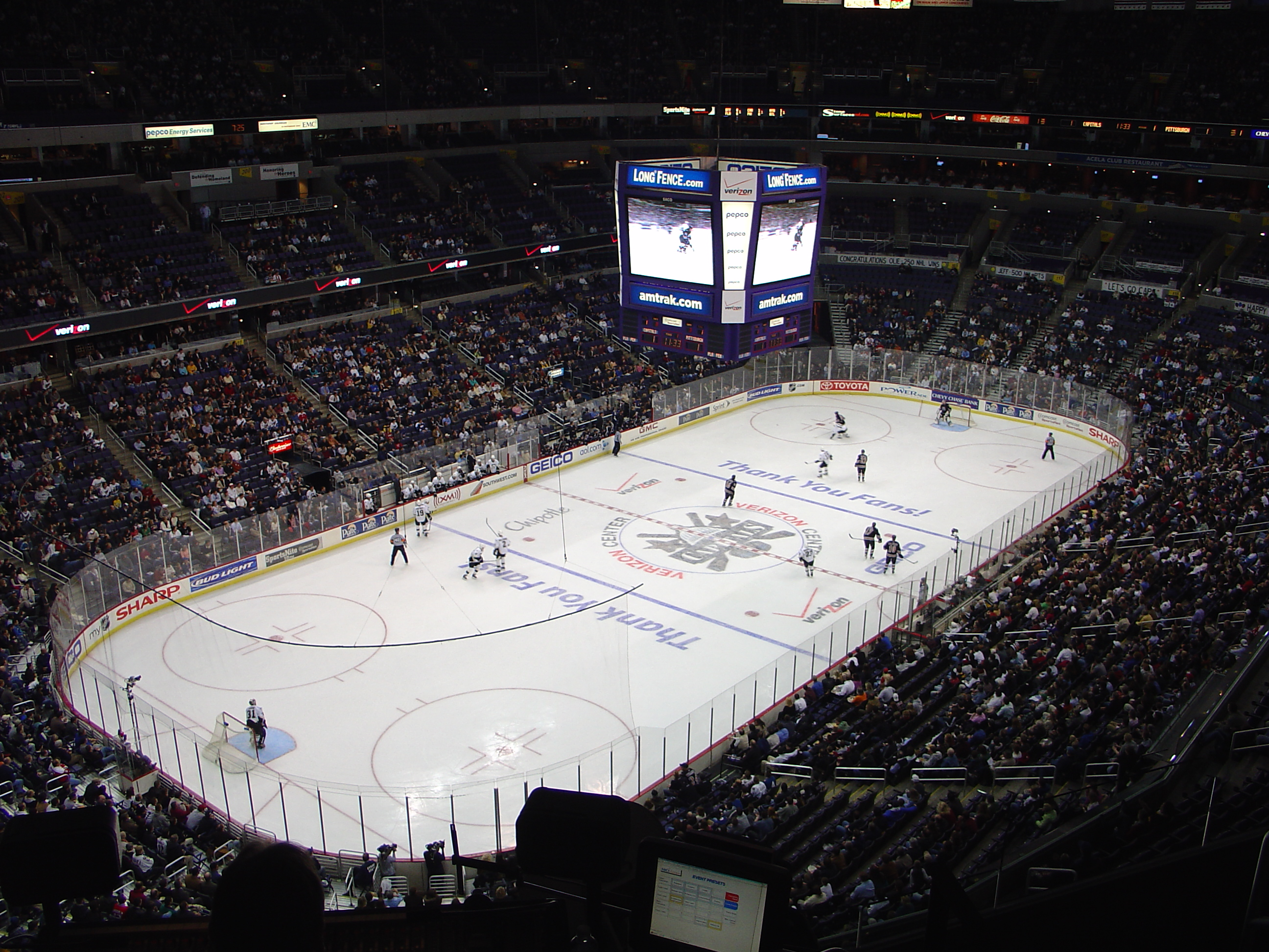 Photo taken March 8, 2006 at a Washington Capitals vs. Pittsburgh Penguins National Hockey League game. This was taken shortly after the building was officially renamed the Verizon Center (as noted by the markings on the ice surface). Several bizarre things happened during this game including a pigeon landing on the ice during play and a fluke goal being scored by Washington on a dump in play from 150 feet away. The goal was featured #1 on ESPN Sportcenter's "Not So Top 10."